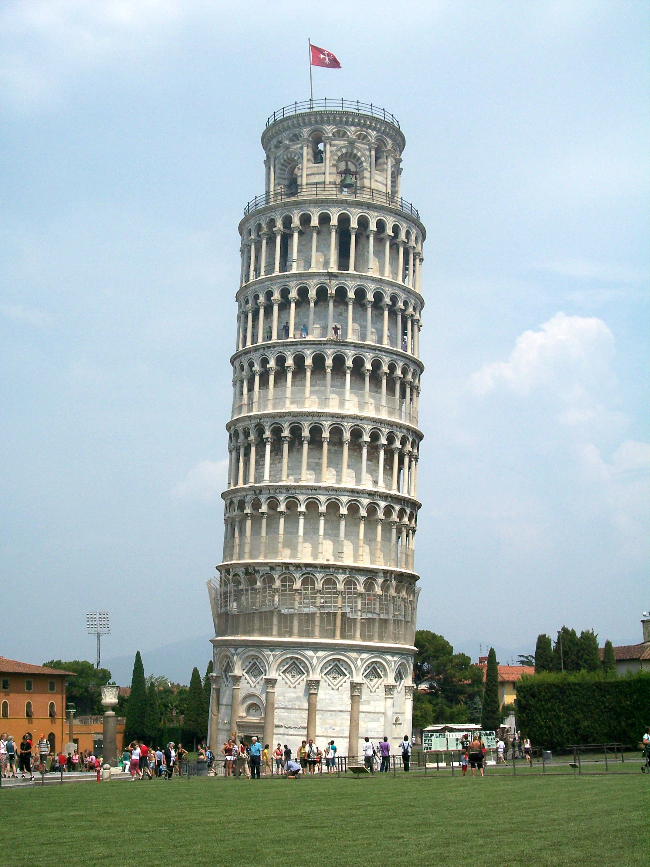 The Leaning Tower of Pisa